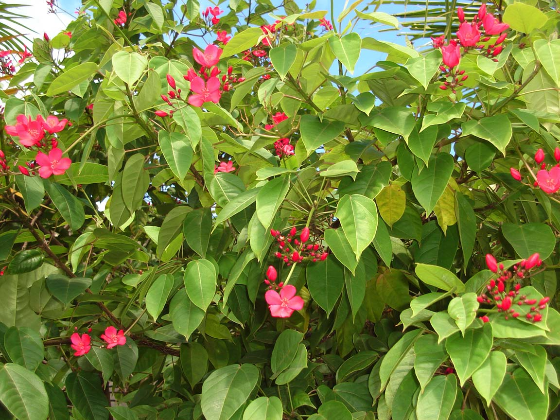 Jatropha integerrima, a tree full of flowers almost year round. Tonga national centre, Tongatapu.